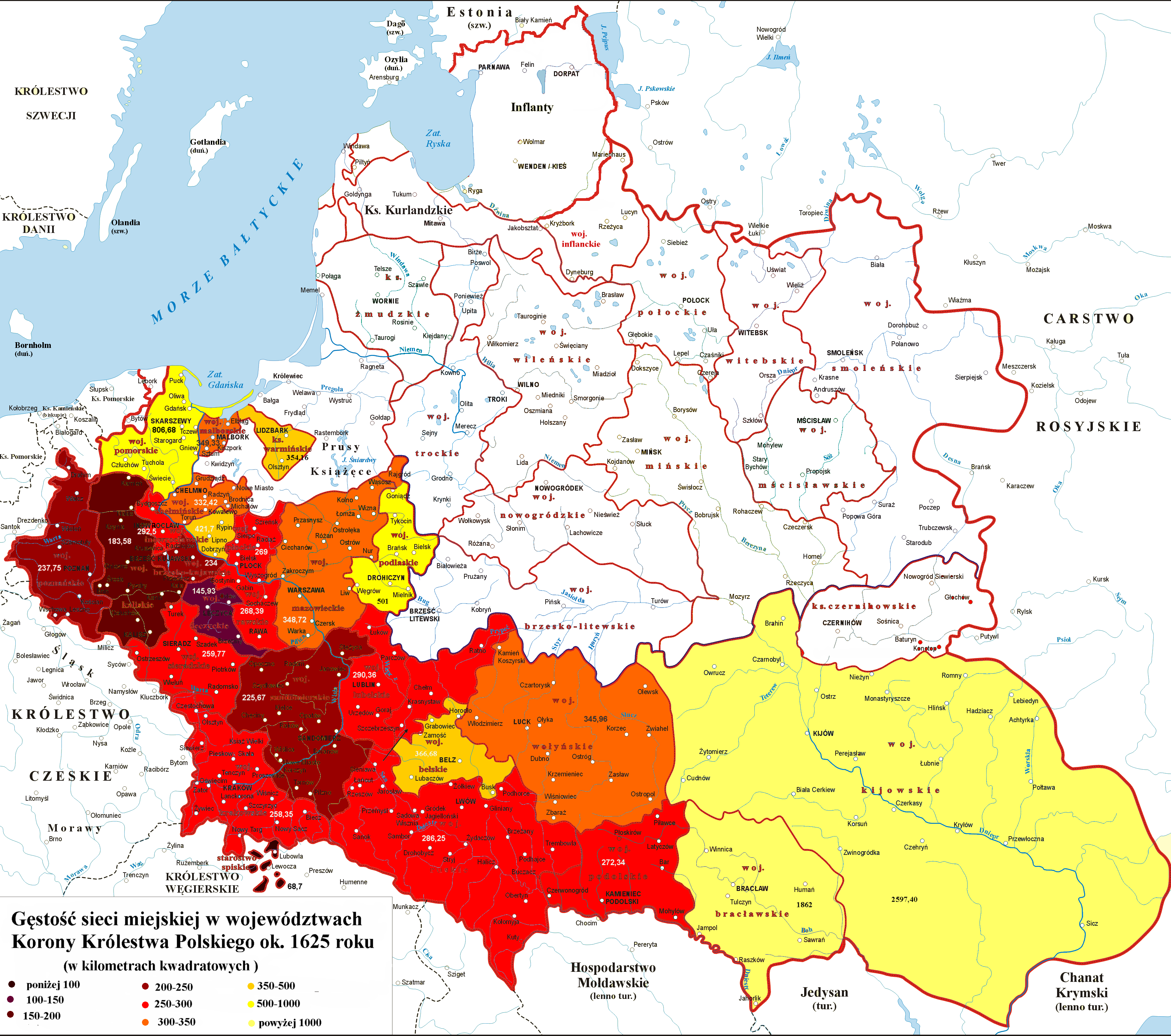 The density of the urban network per voivodeship of the Crown of the Polish Kingdom ca. 1625